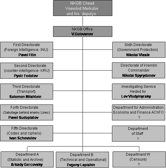 People's Commissariat for State Security (USSR) organization from 1943-46 (self made image)